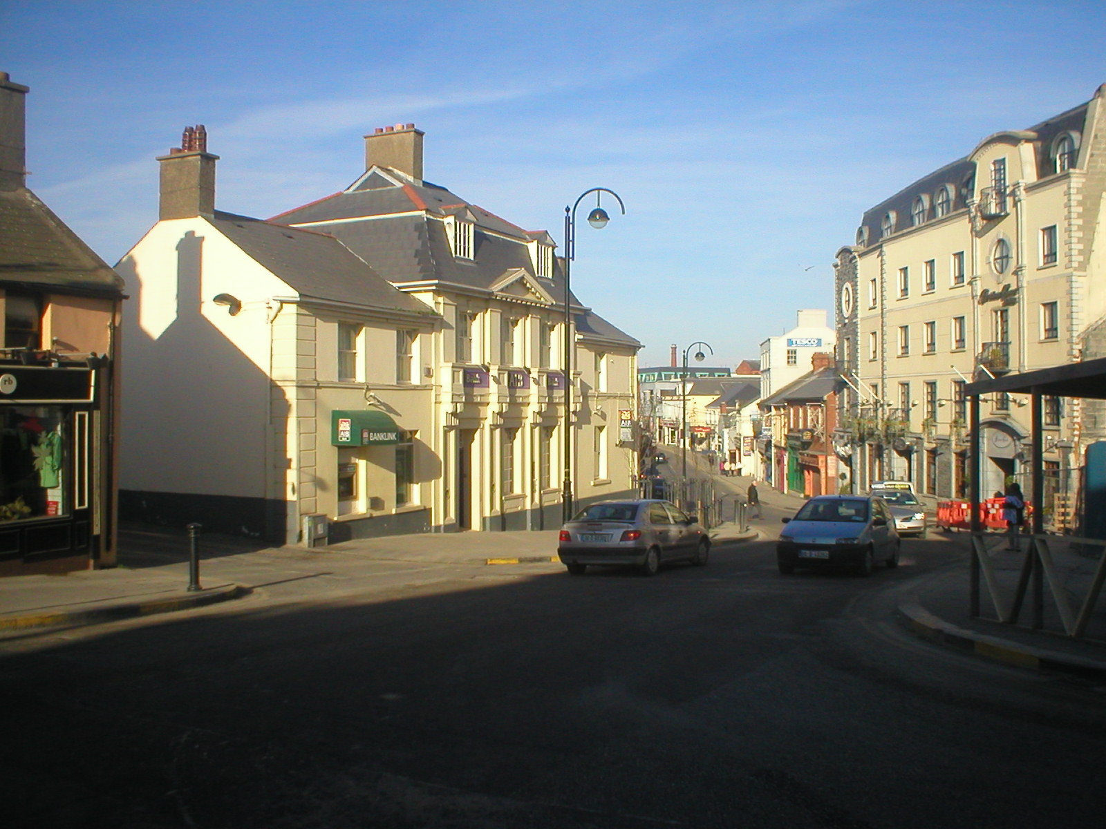 Balbriggan - main street.